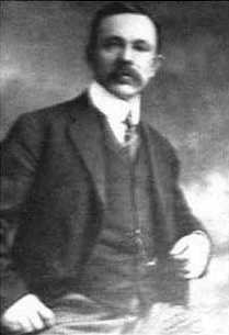 Joseph Nelson Rose (1862-1928) photograph from Zeitschrift für Sukkulentenkunde